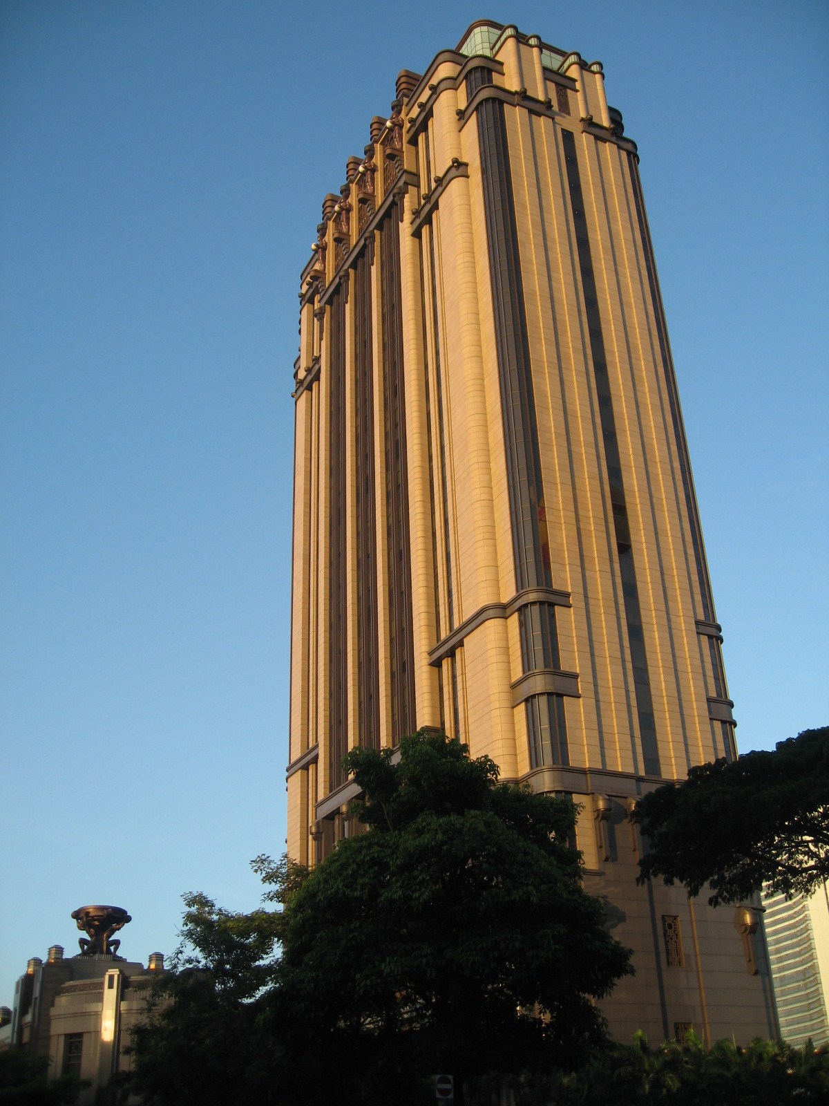 Parkview Square.